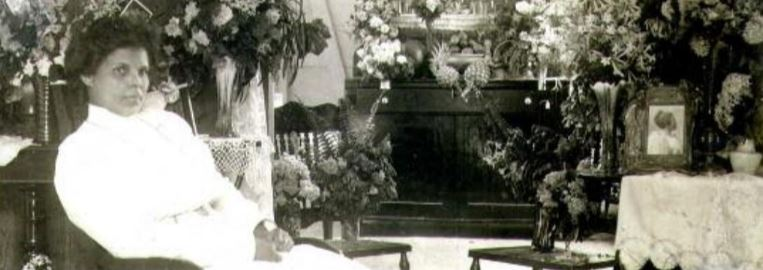 A black and white photograph of Dr. Sarah Loguen Fraser, at her home in Puerto Plata in the Dominican Republic